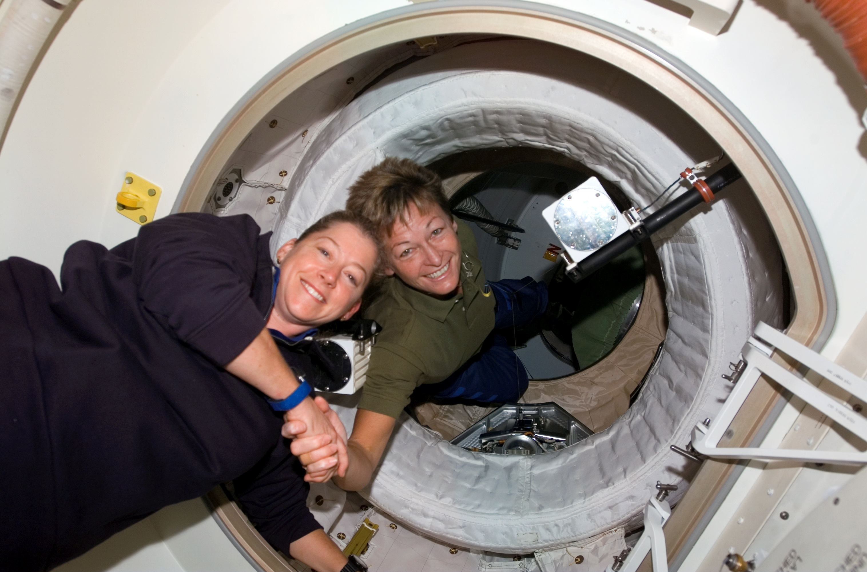 Astronaut Peggy Whitson (right), Expedition 16 commander, greets astronaut Pam Melroy, STS-120 commander, after hatch opening between the International Space Station and Space Shuttle Discovery. Whitson is partially in the Pressurized Mating Adapter (PMA-2) and Melroy is in the Orbiter Docking Compartment (ODC). Source: HSF Media Gallery